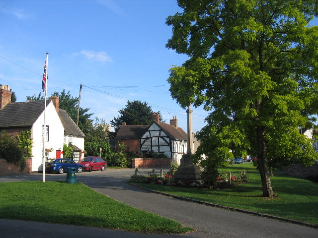 Wolston. Looking SE towards the village centre with the war memorial and some timbered cottages.